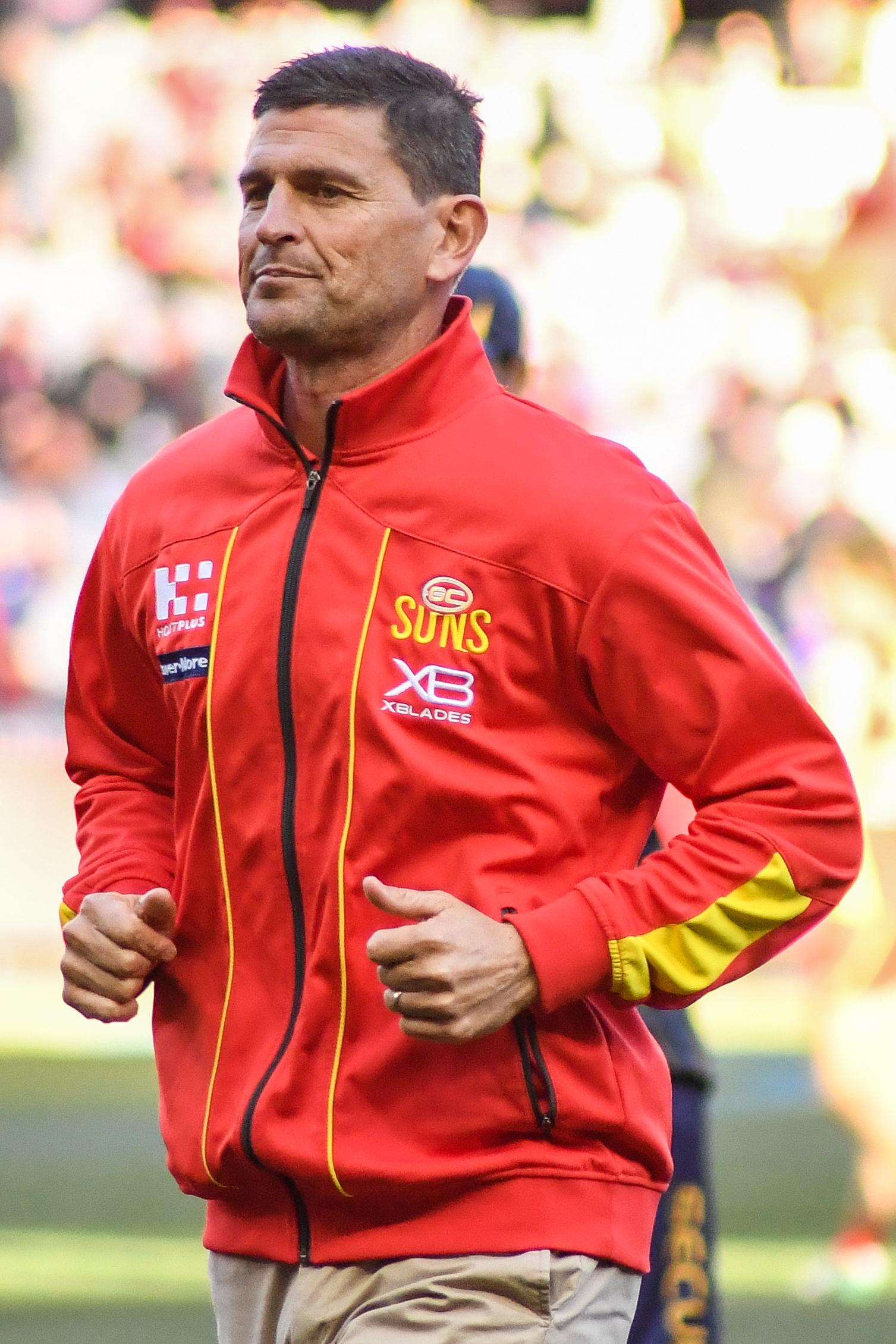 Ashley Prescott of Gold Coast during the 2018 AFL round 20 match between Melbourne and Gold Coast at the Melbourne Cricket Ground on Sunday, 5 August 2018 in Melbourne, Victoria.